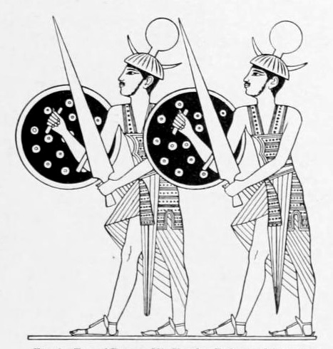 Sherden personal guards of Ramesses II, on a relief in the Sun Temple of Abu Simbel. Drawing as published by Ippolito Rosellini.